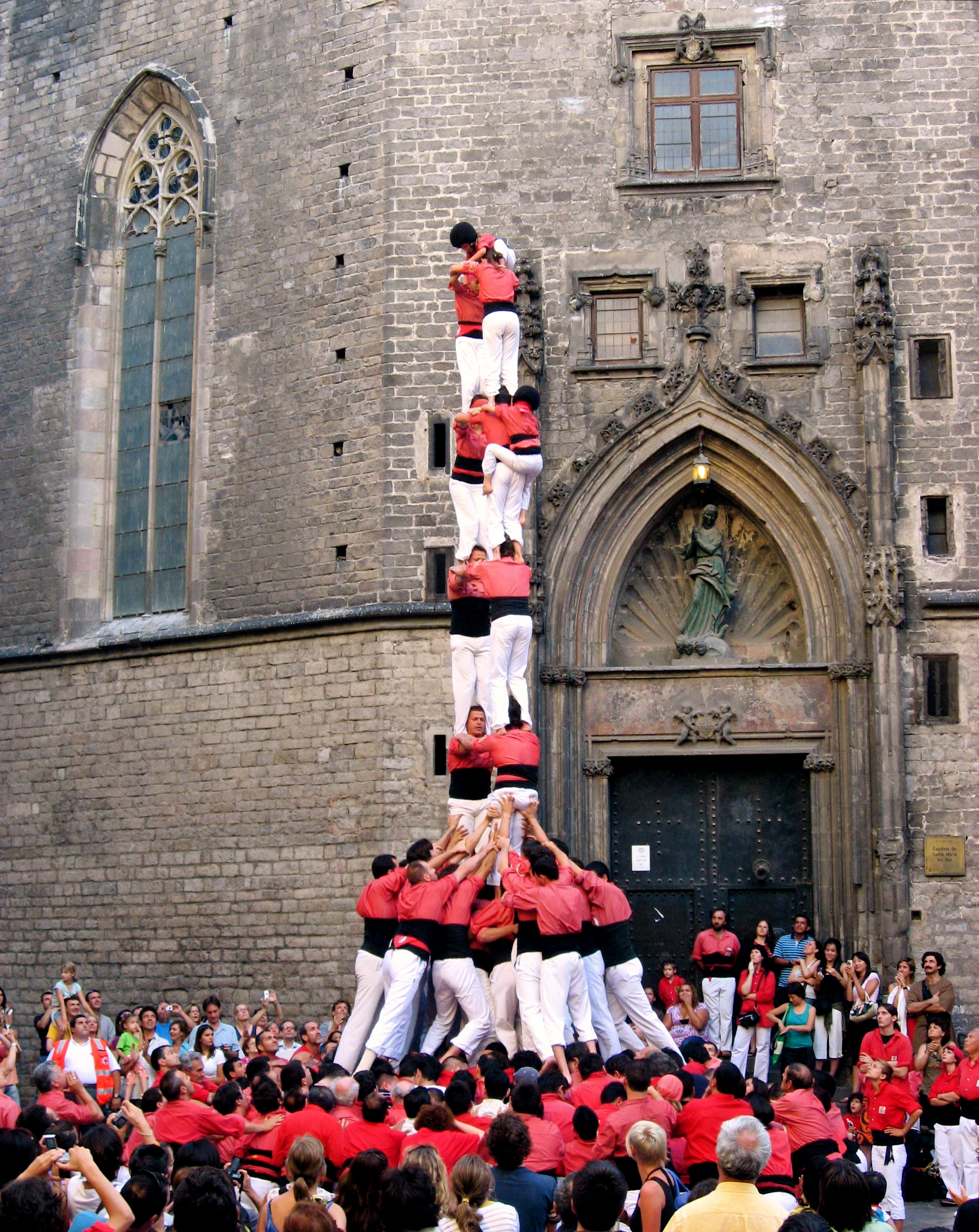 Found behind a cathedral in Barcelona, Spain. The men at the bottom are like flying buttresses, holding up a growing tower of people, culminating with two young girls in a crash helmets preparing to stand at the top. Here’s a video of the build , just one of the many colorful celebrations of Catalan culture spilling into the streets and squares. (I am looking forward to pouring through the photo backlog and sharing some of the trip highlights)